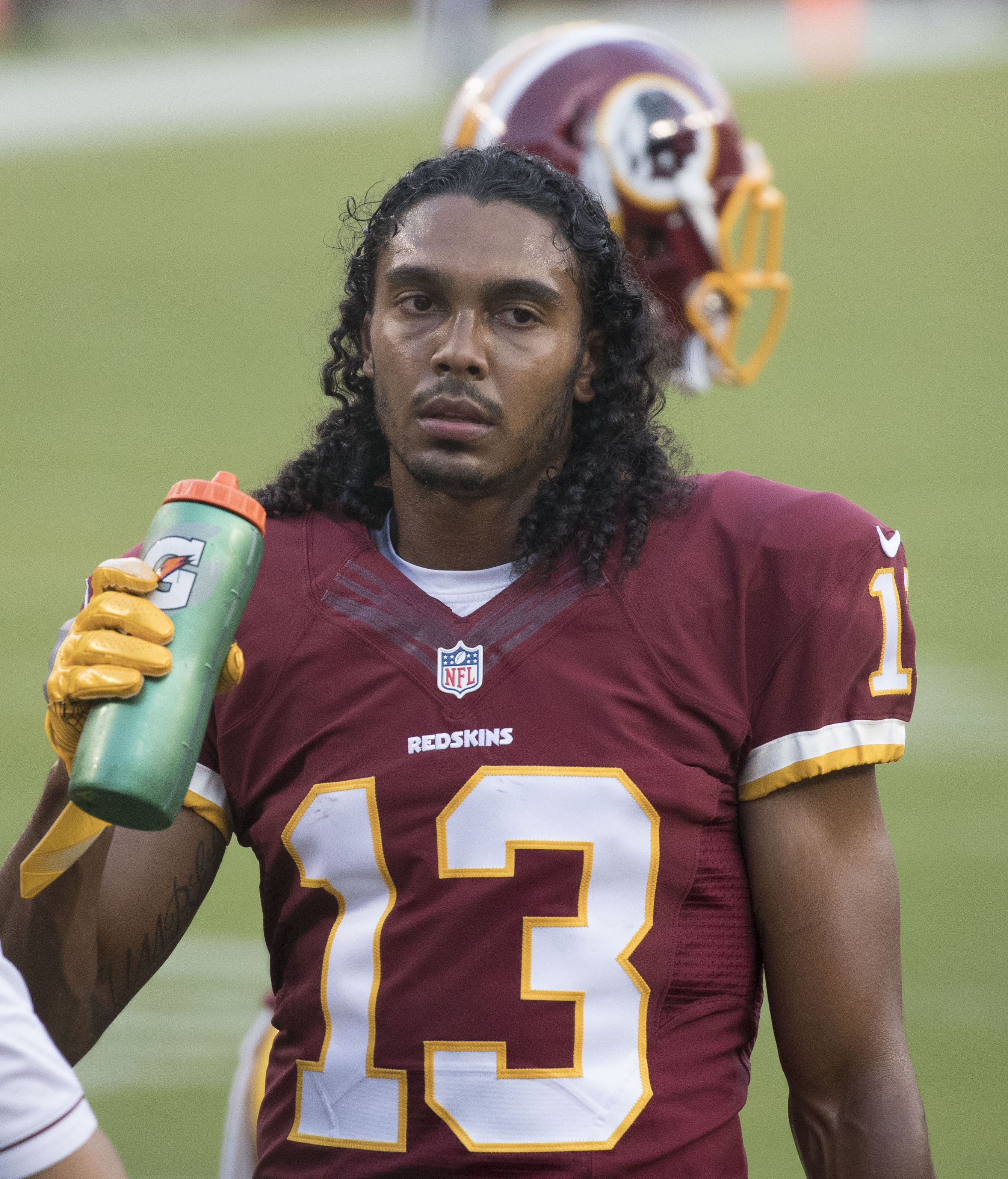 Washington Redskins wide receiver, Maurice Harris, in a preseason game against the New York Jets on August 19, 2016